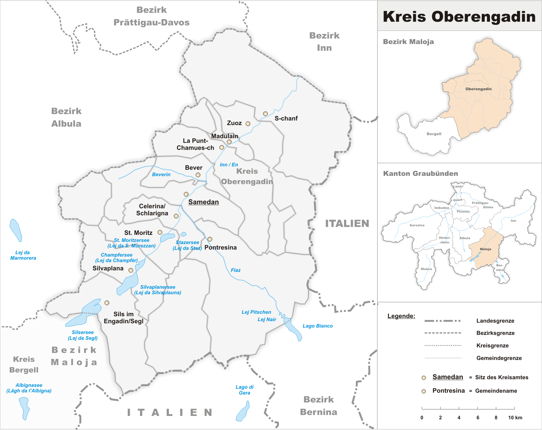 Municipalities in the circle of Oberengadin